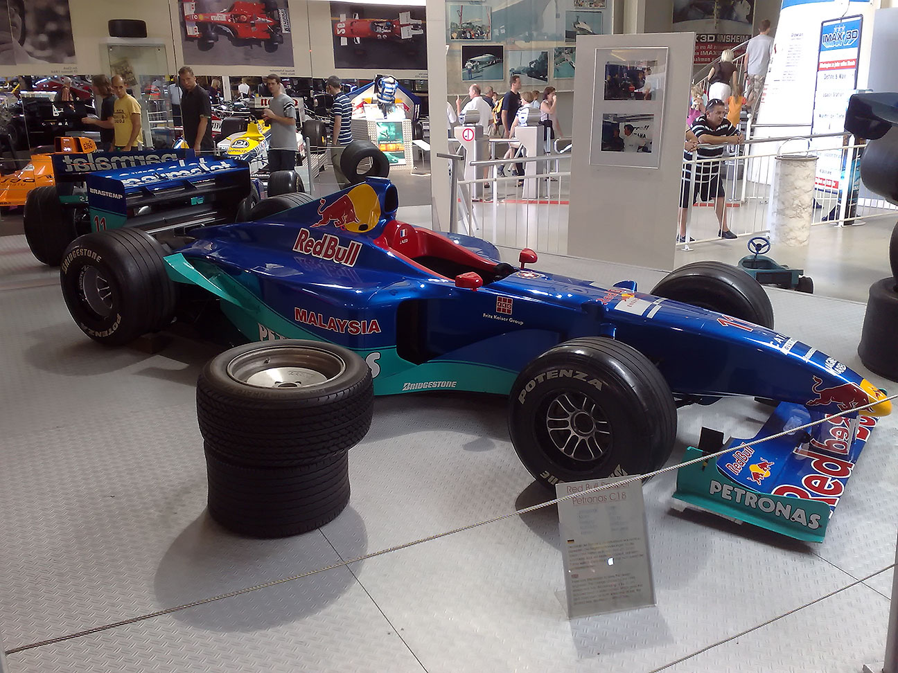 Red Bull Sauber Petronas C17 (1998 car but 1999 livery) at Auto- und Technikmuseum Sinsheim